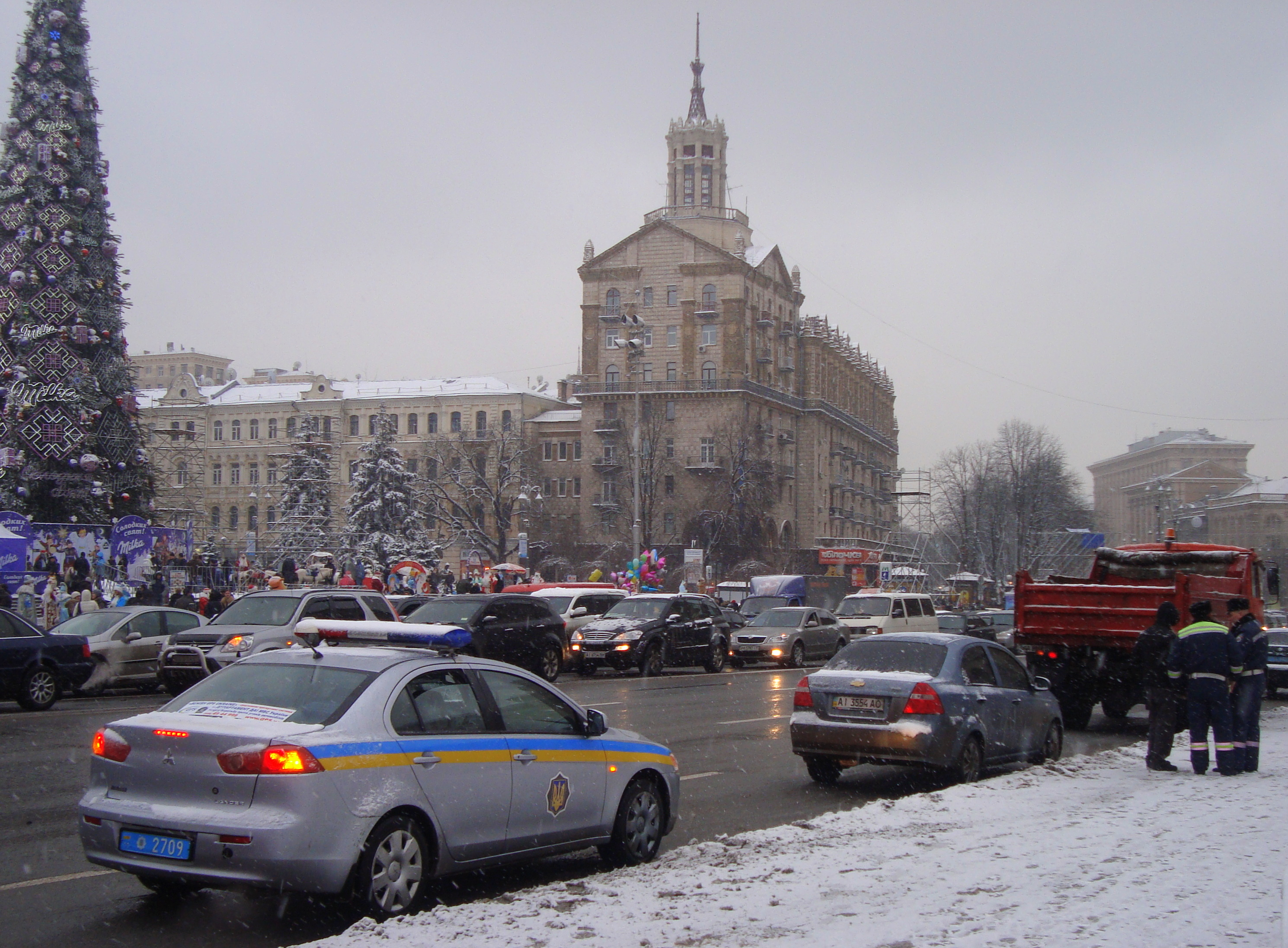 State automobile inspectorate police officers and their patrol car. Khreschatyk Street, Kiev, Ukraine